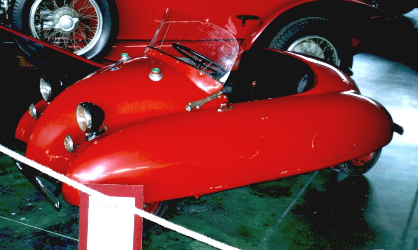 Volugrafo von 1946 (Country of origin: Italy)